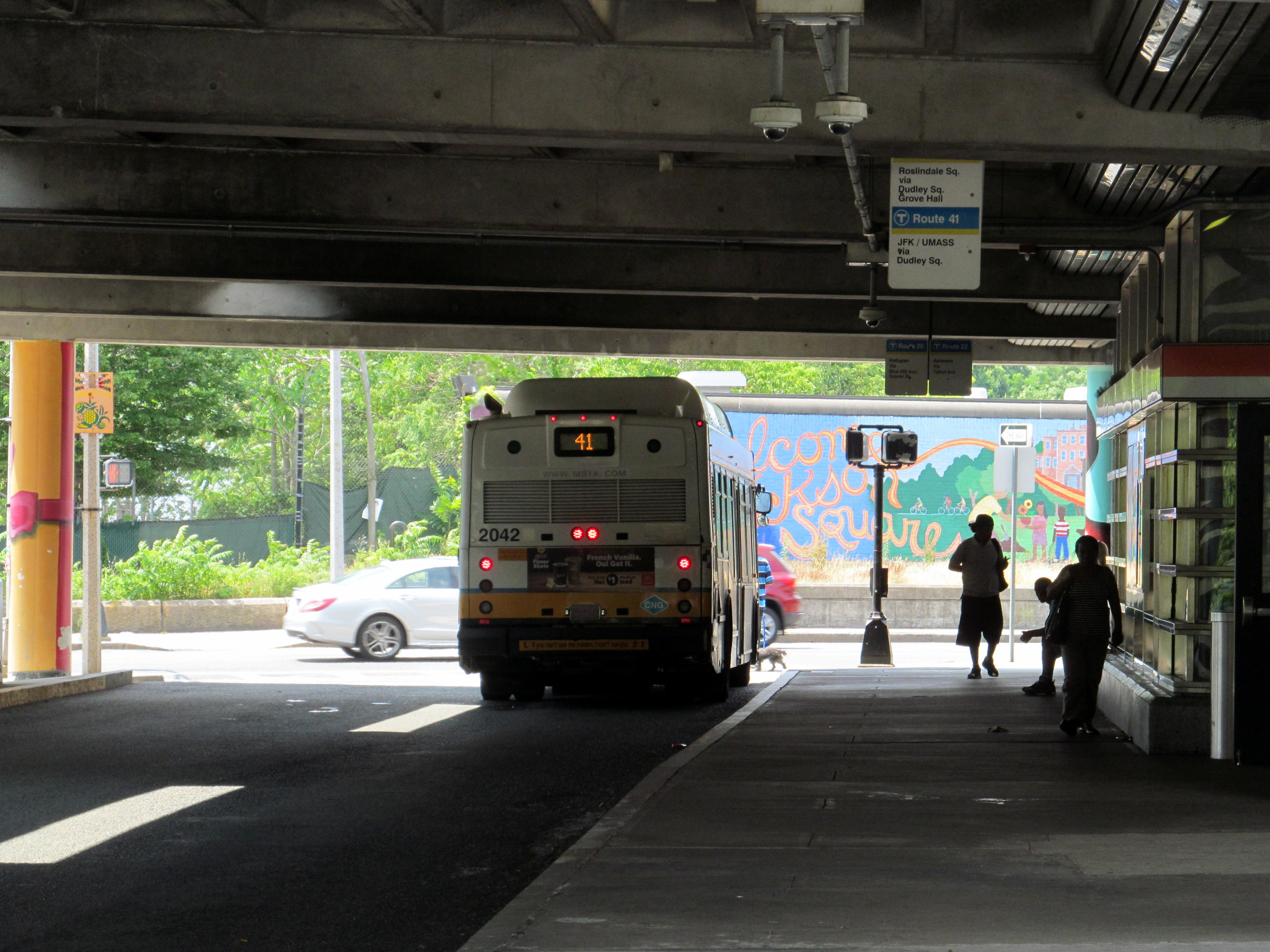 A route 41 bus at Jackson Square station in July 2016